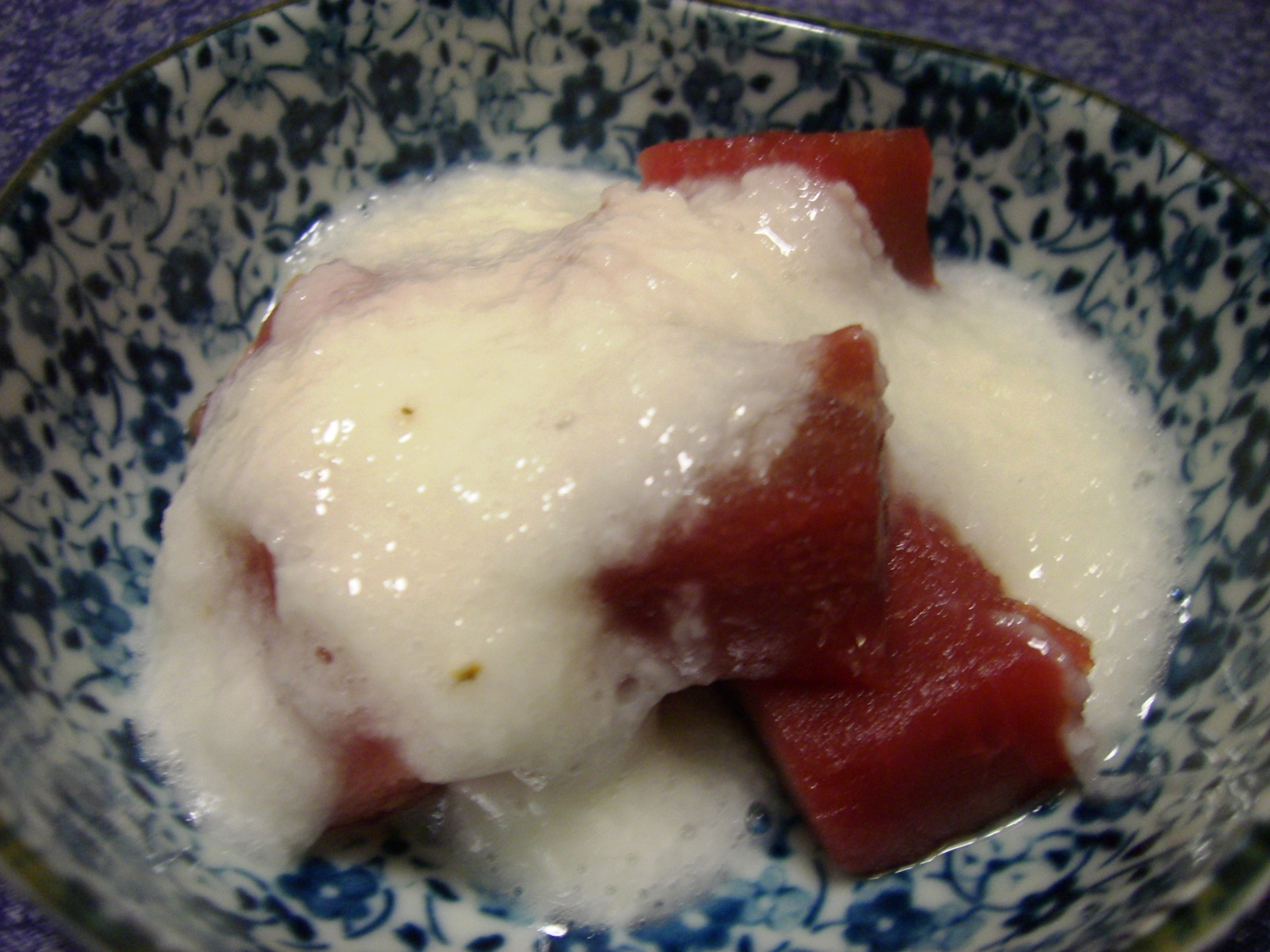 Yamakake is japanese food.It is mixing tororo and maguro.